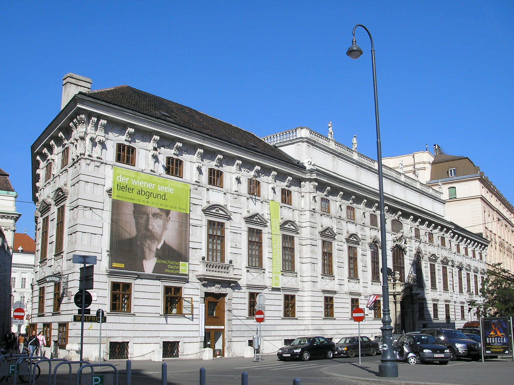 Image of the Palais Lobkowitz in Vienna's first district Innere Stadt.